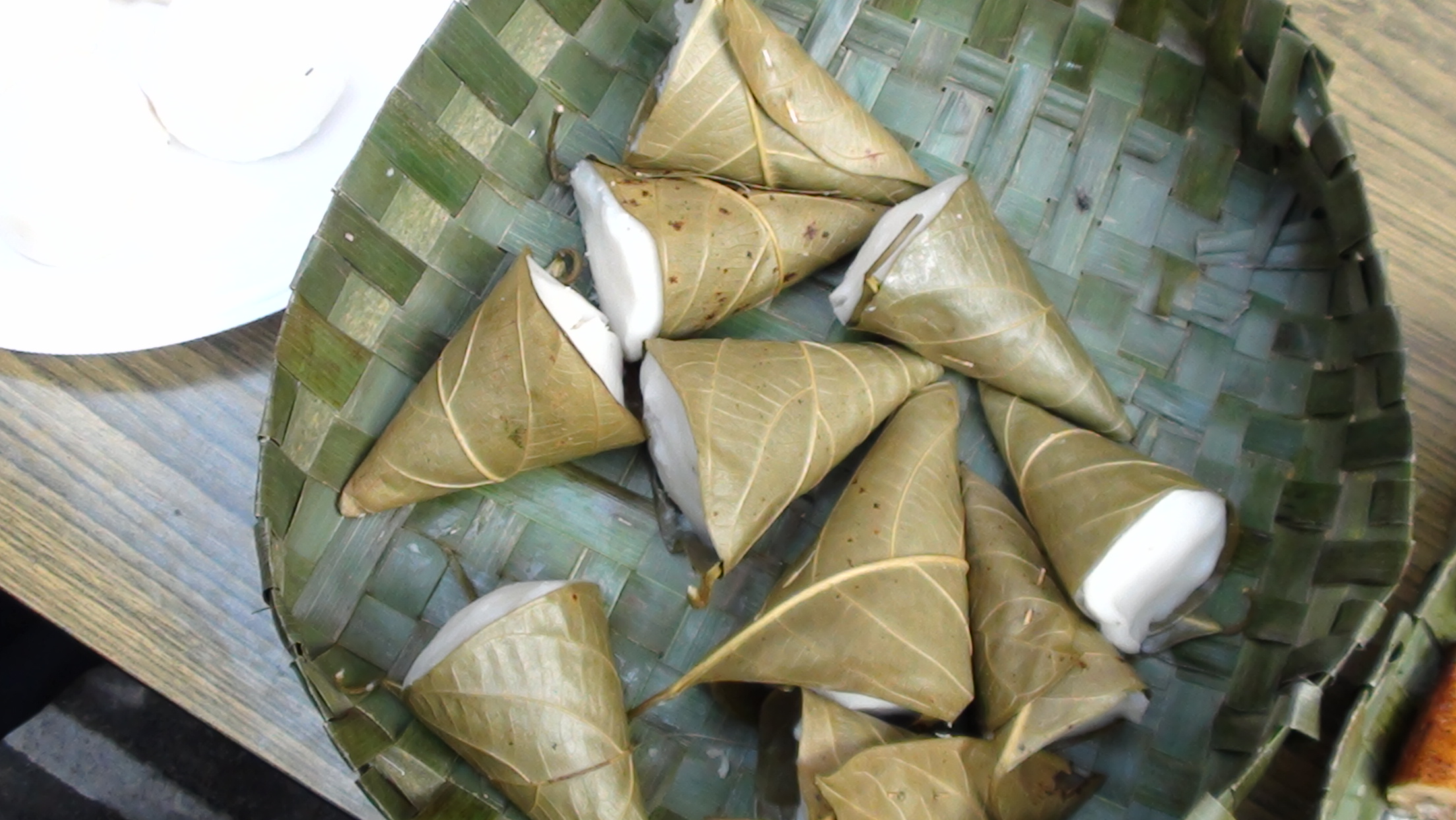 kumbilappam a snack food in kerala india jadan